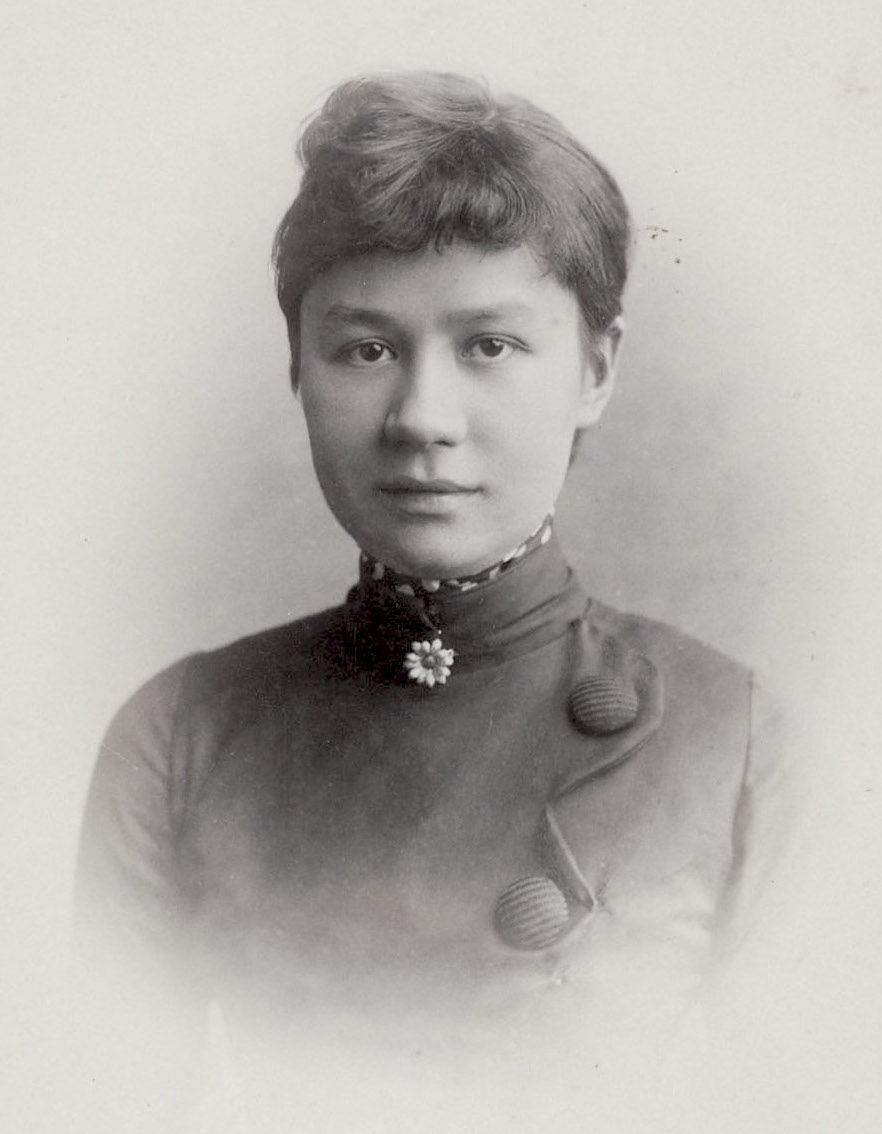 Jo van Gogh-Bonger Amsterdam April 1889